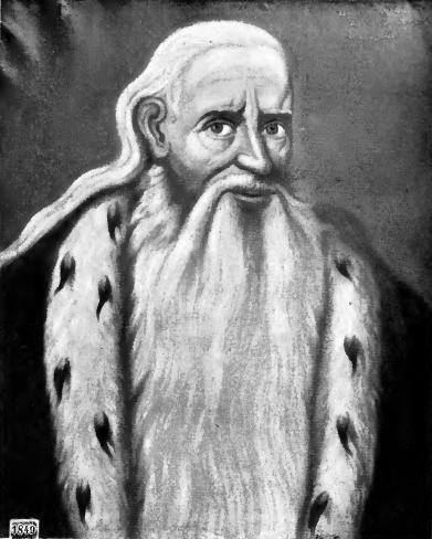 Đorđe Branković, Count of Podgorica (1645–1711), Transylvanian Serb diplomat, writer, and self-proclaimed descendant of the medieval Serbian Branković dynasty.